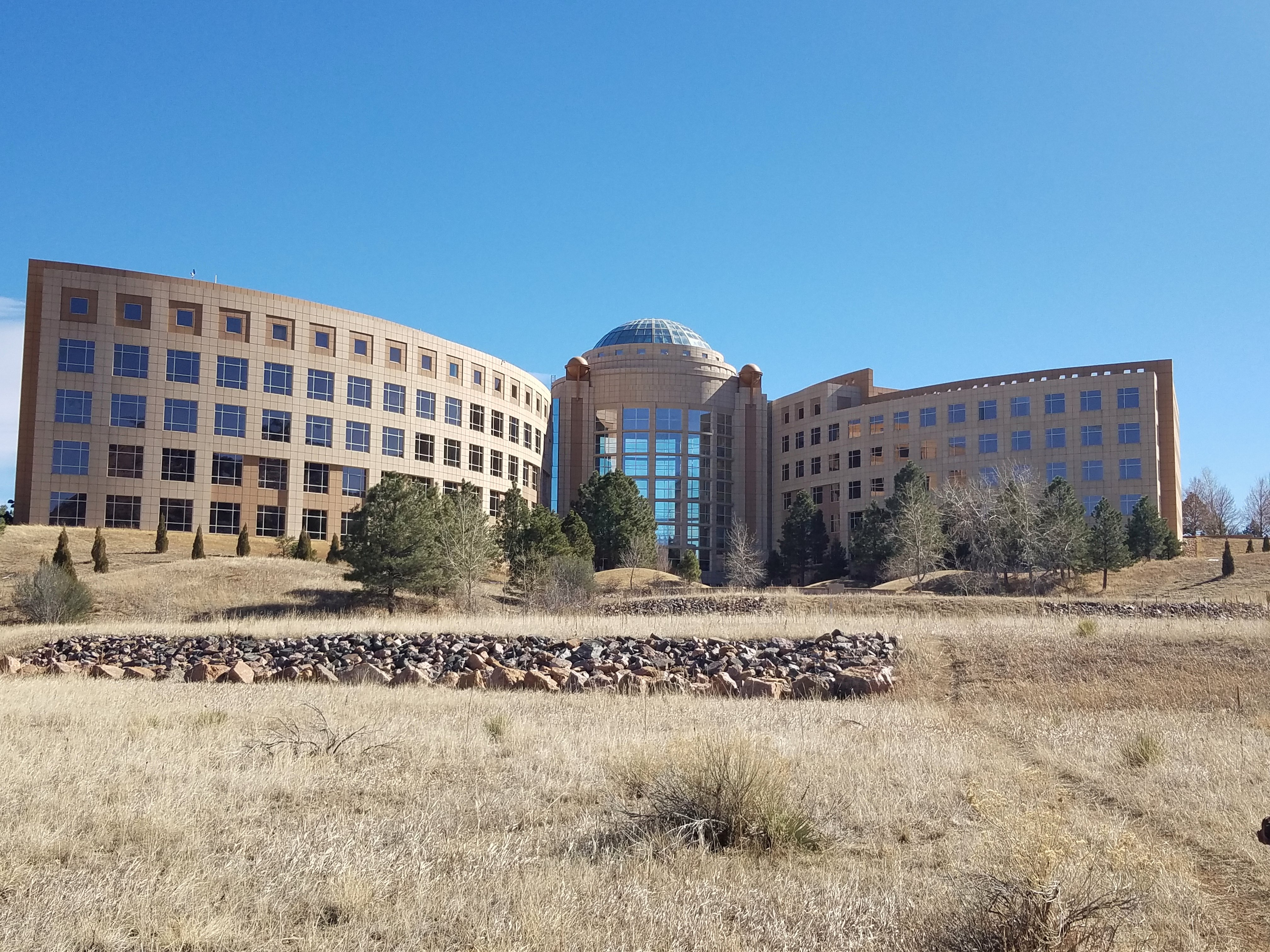 Jefferson County Court house at the Jefferson County Government Center.